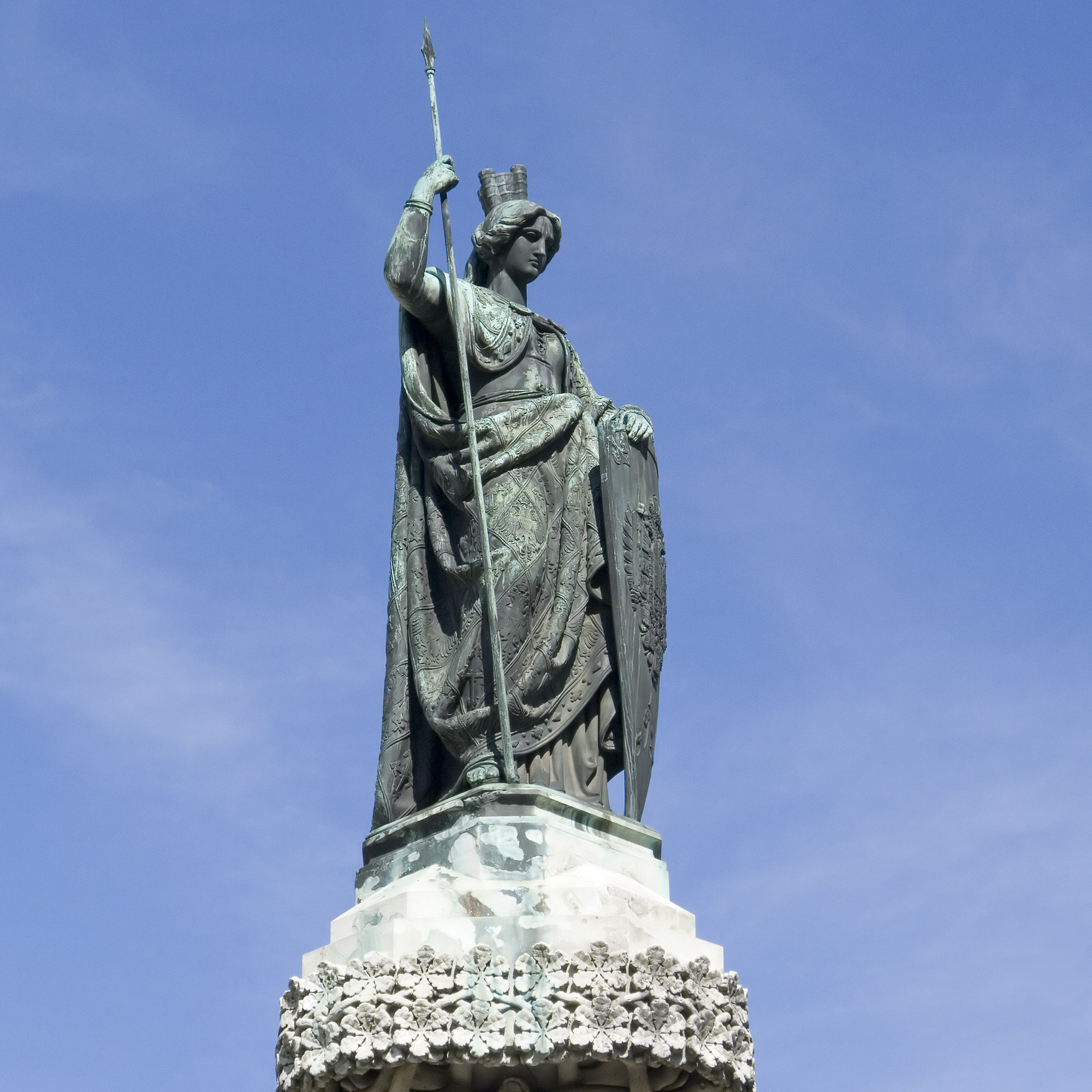 Fountain Austriabrunnen in Vienna 1